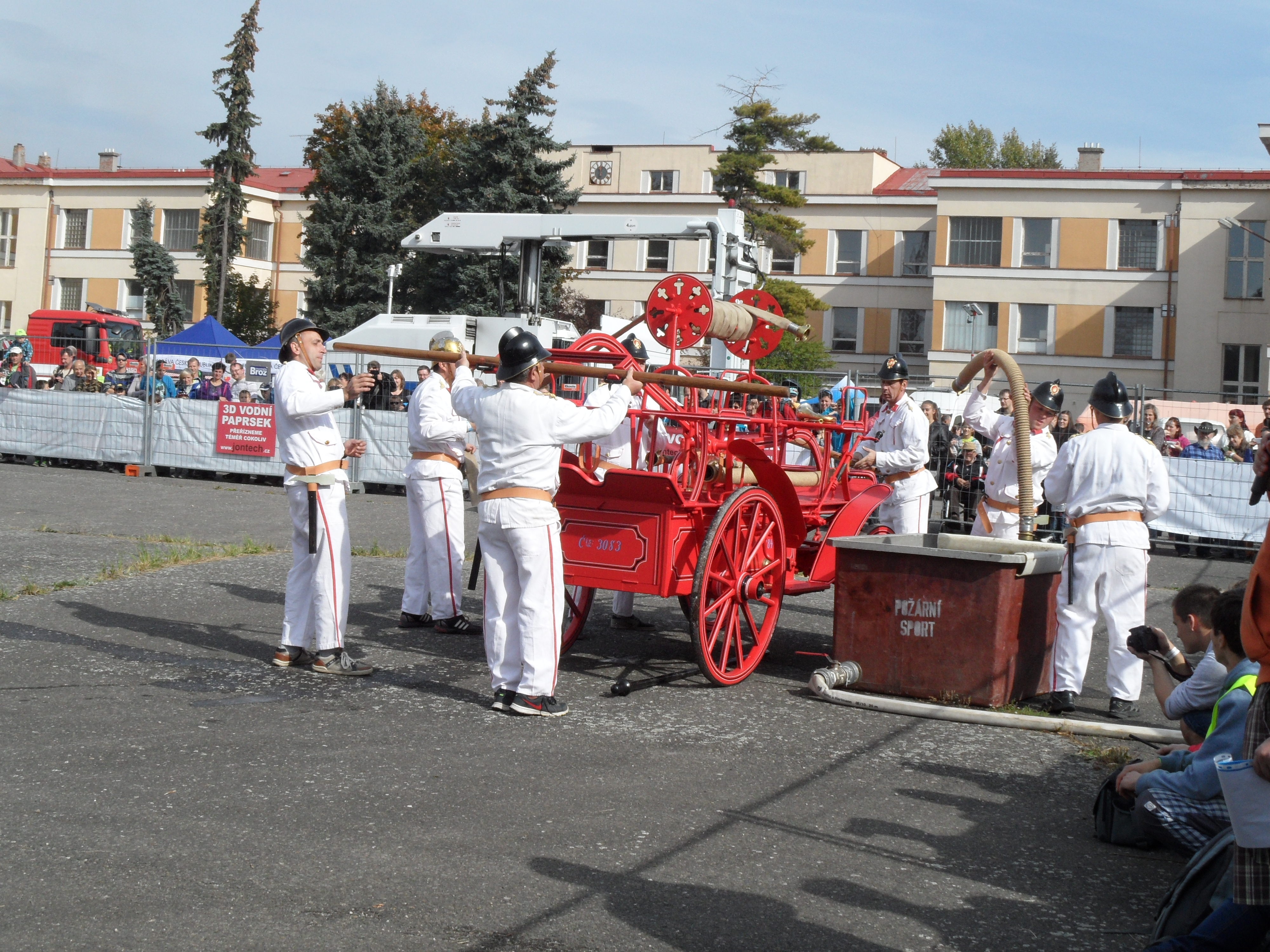 Retro City. Saturday: Main Programme B02. Hand-operated Fire Fighers. Pardubice, Pardubice District, the Czech Republic.